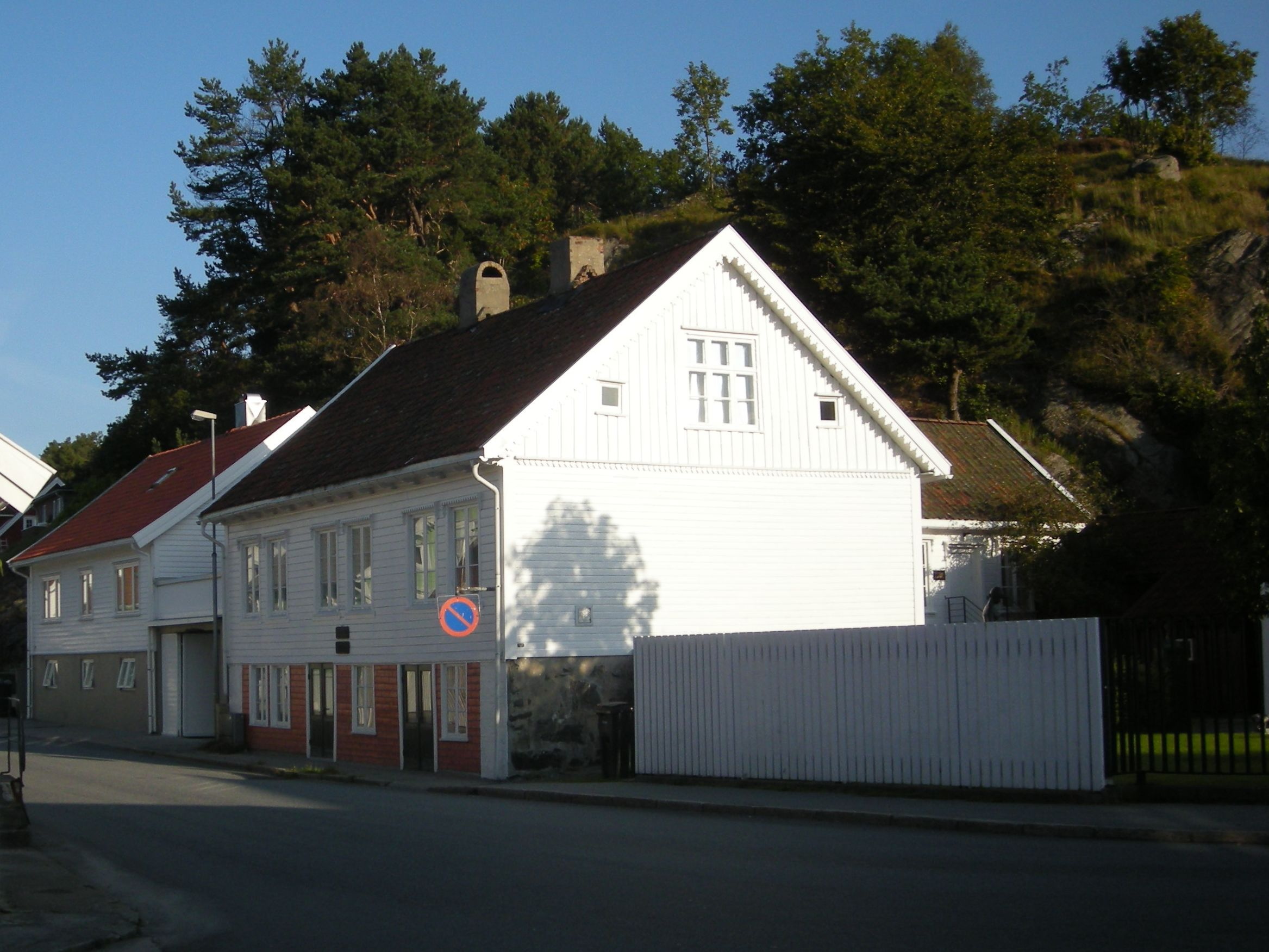 The birthplace of the Norwegian sculpturer Gustav Vigeland in Mandal